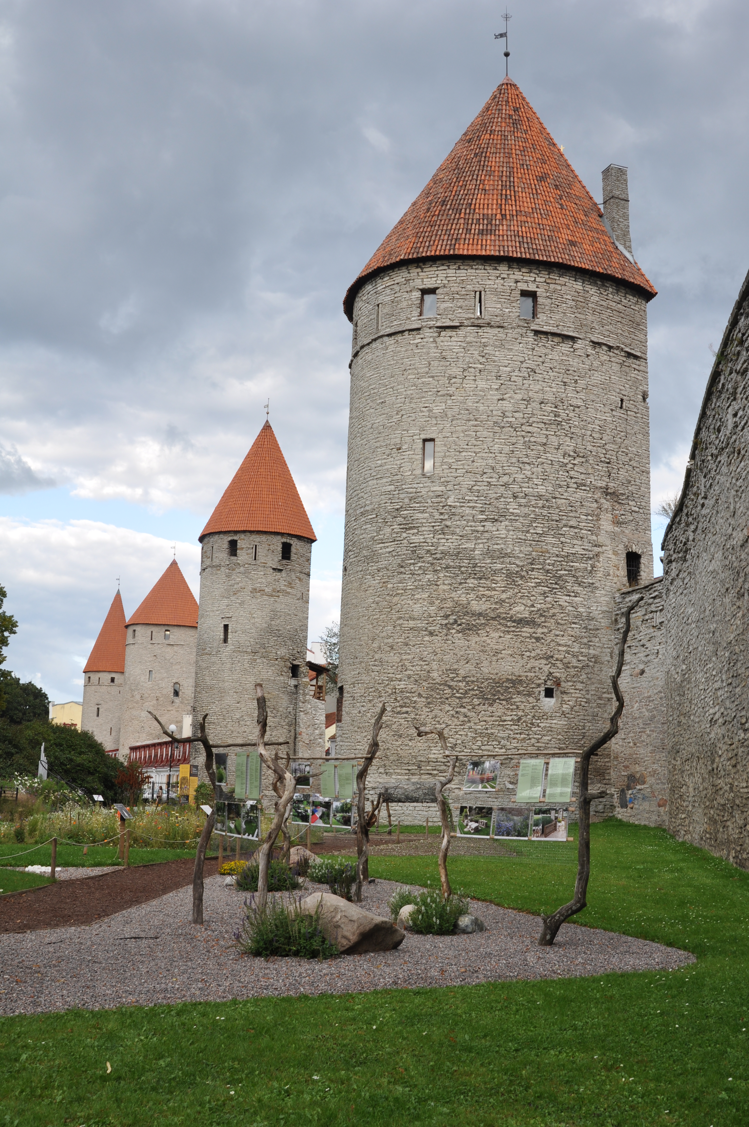 Historic Centre (Old Town) of Tallinn - UNESCO World Heritage Site